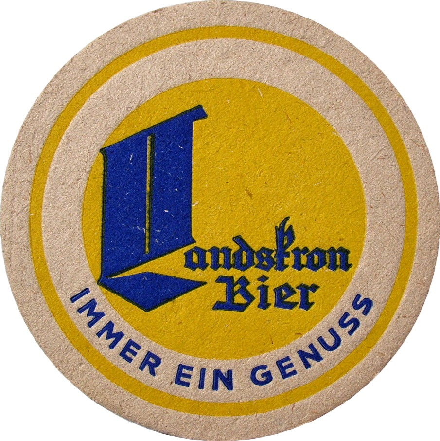 beer mat "Landskron Bier"